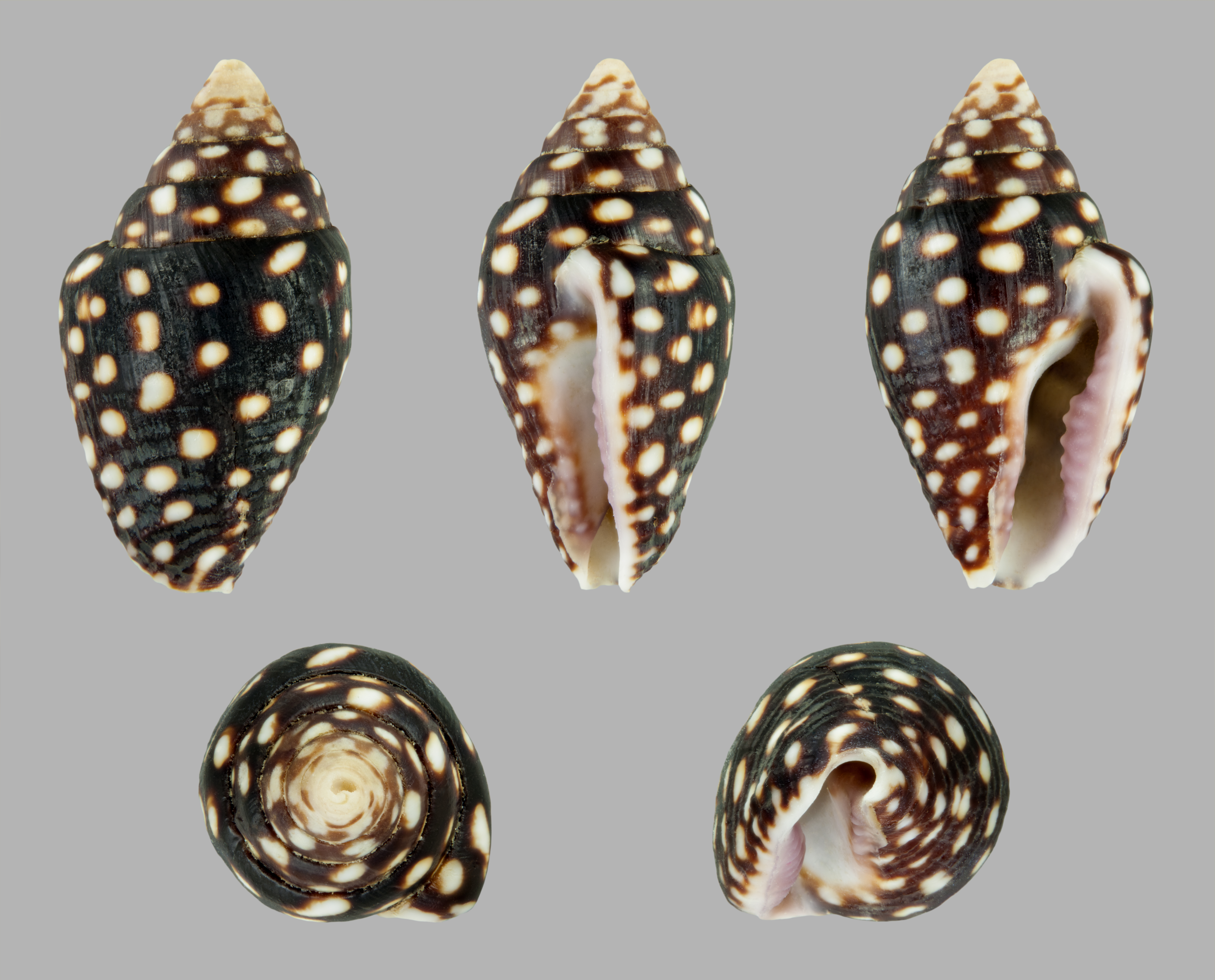 Pictocolumbella ocellata (Link, 1807), Lightning Dove Shell, dotted form; Length 1.5 cm; Originating from the Philippies; Shell of own collection, therefore not geocoded.